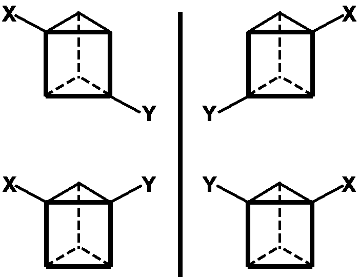 Enantiomers of ortho and meta isomers of disubstitued prismane as van't Hoff proposed again Ladenburg benzene in 1876.